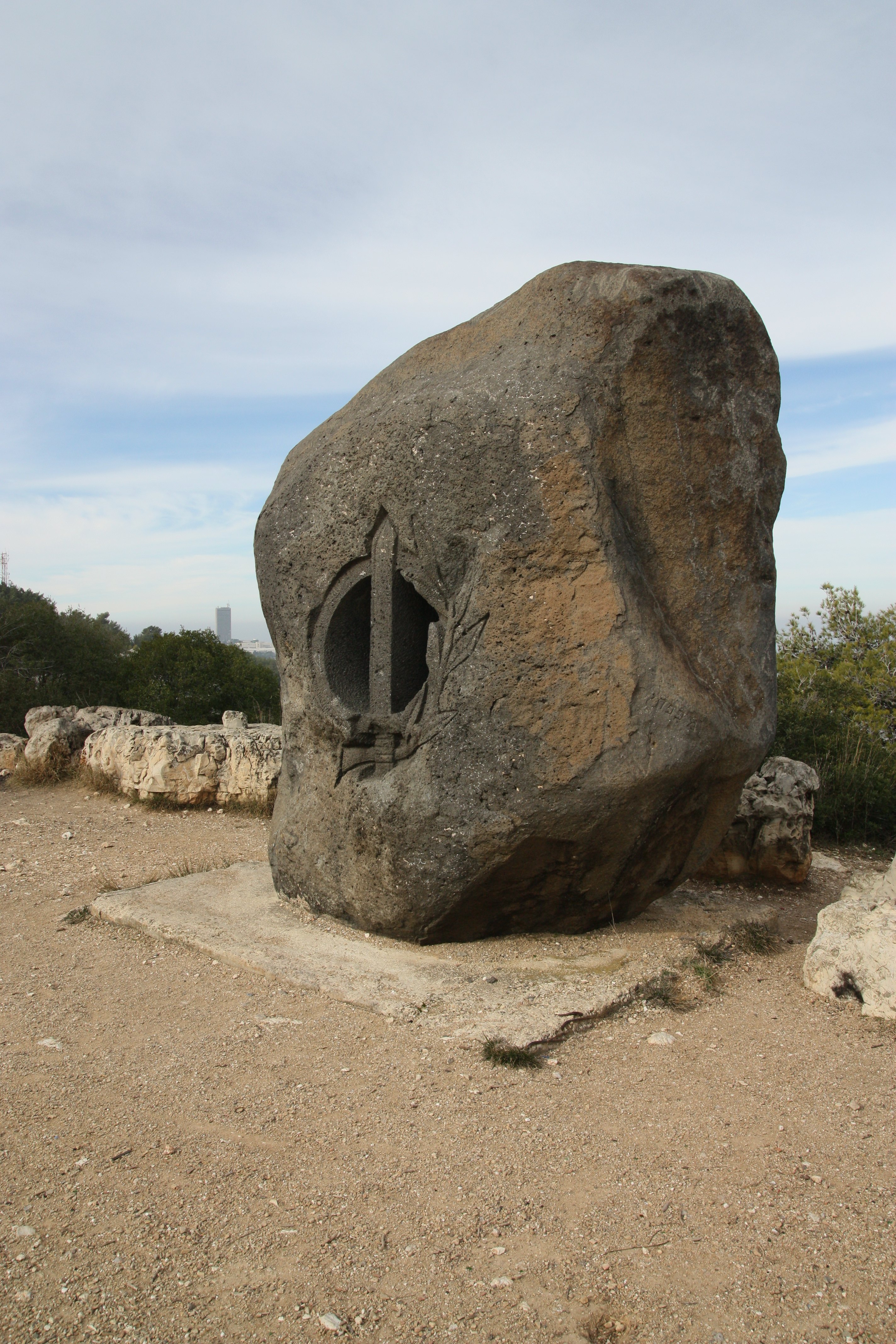 Mount Carmel